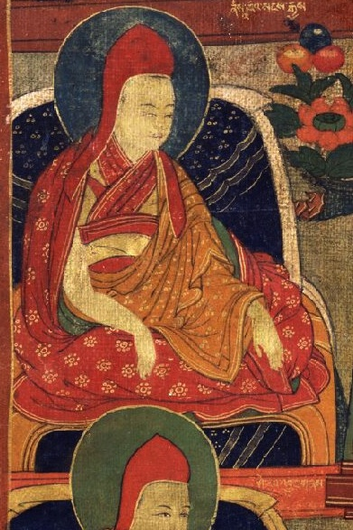 Sherab Jungne, b.1596 - d.1653, The Eighteenth Ngor Khenchen